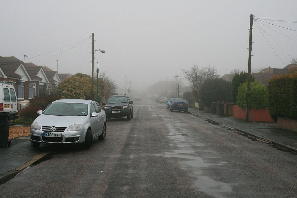 Drizzle in Bascott Road In the Wallisdown area of Bournemouth.